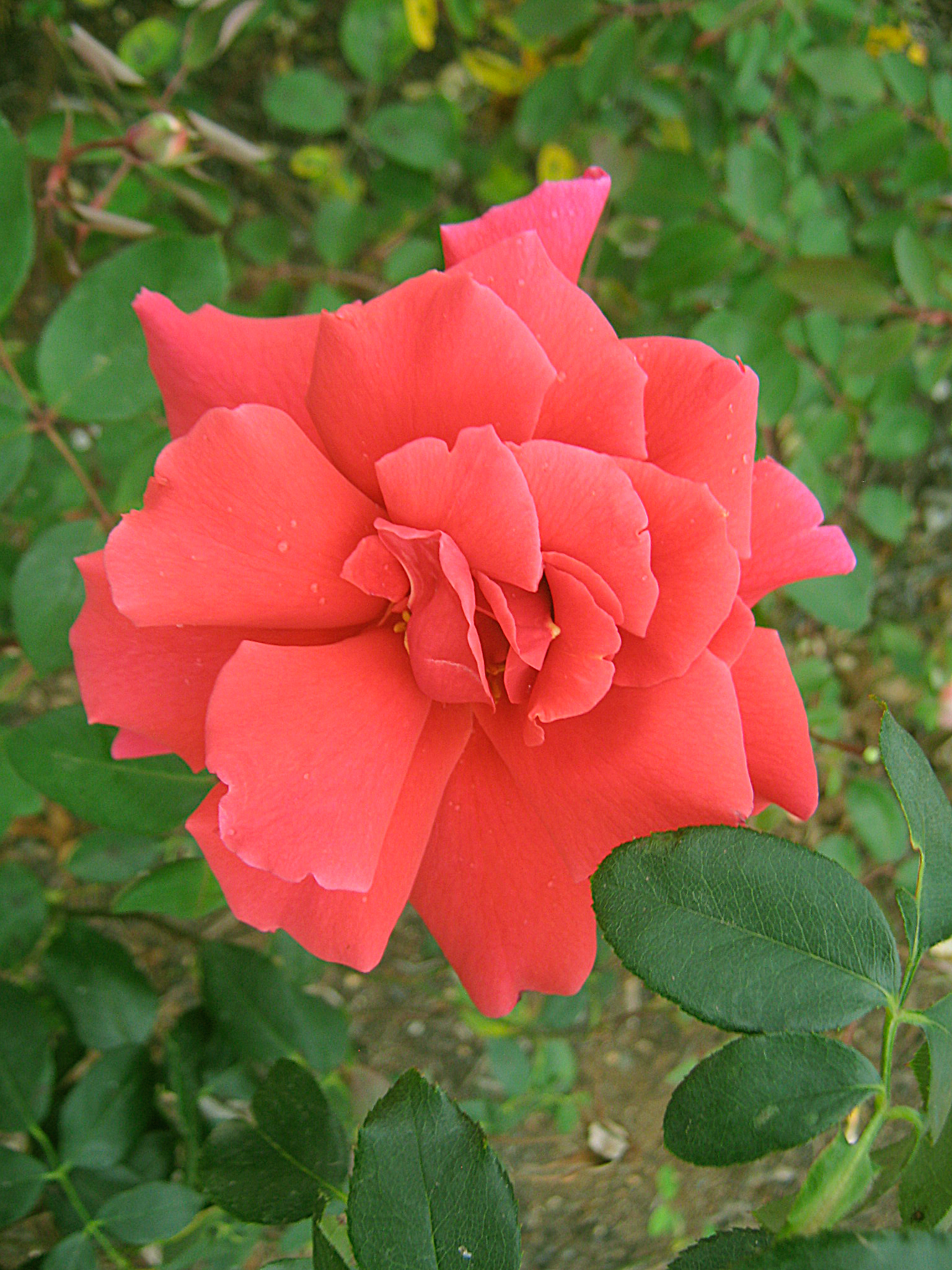 Rose 'Grande Duchesse Charlotte' Ketten Freres 1942 hybrid tea